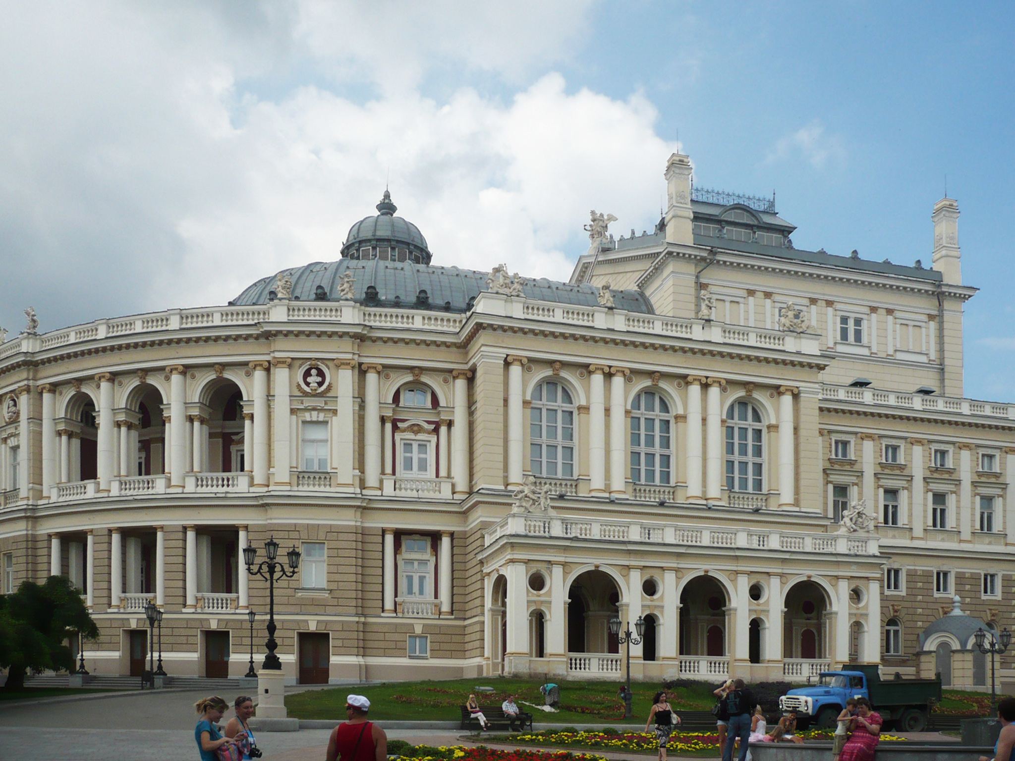 Side view of Odessa Opera Theatre